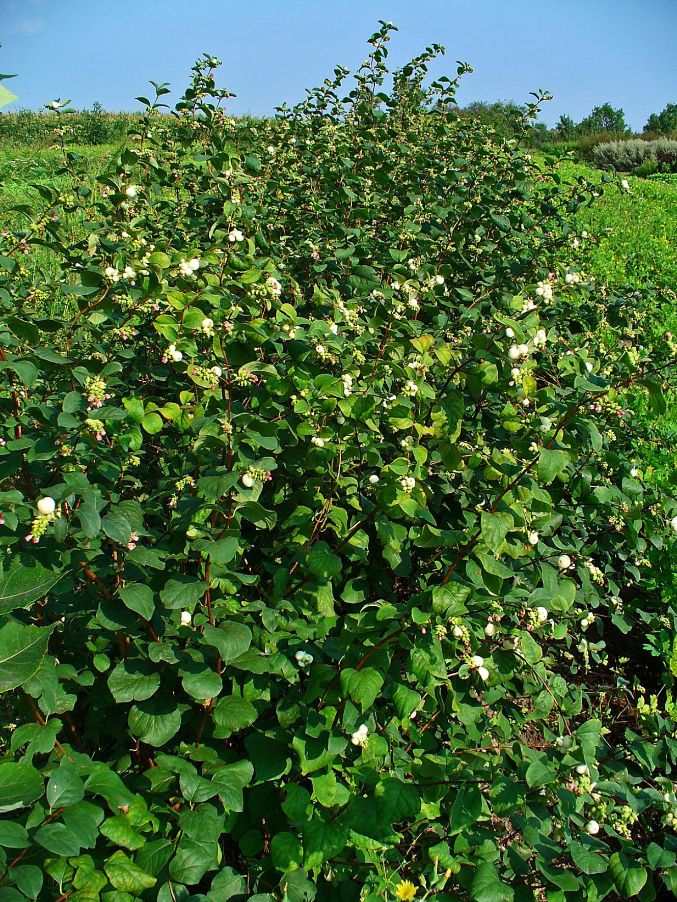 Symphoricarpos albus, Caprifoliaceae, Common Snowberry, habitus.